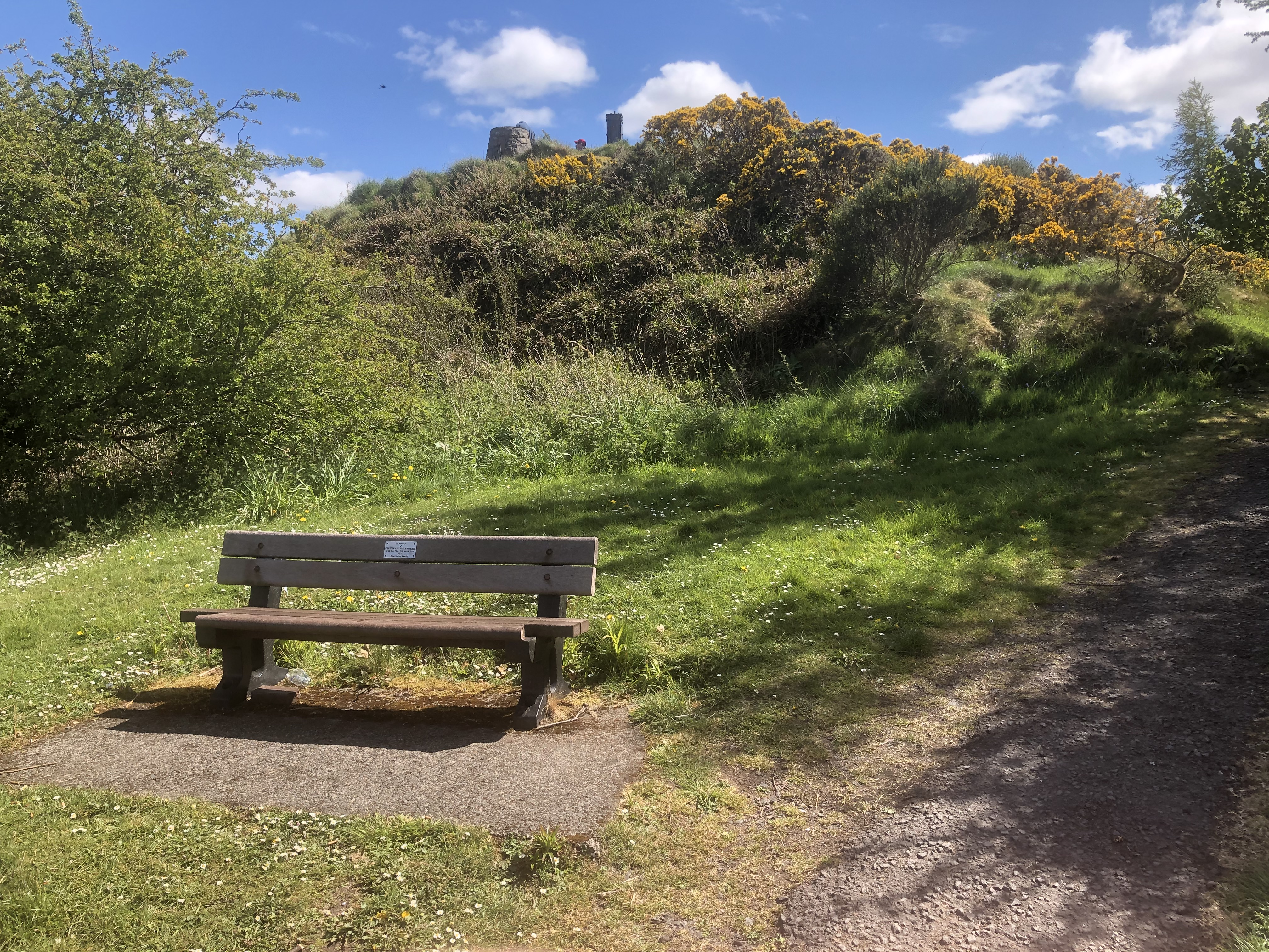 Craigs Top, summit at the high point of Lyle Hill in Greenock. The path up to scenic viewpoint marked by cairn (formerly a toposcope base) and a cast iron pillar dated 1897, thought to be a flag staff base.